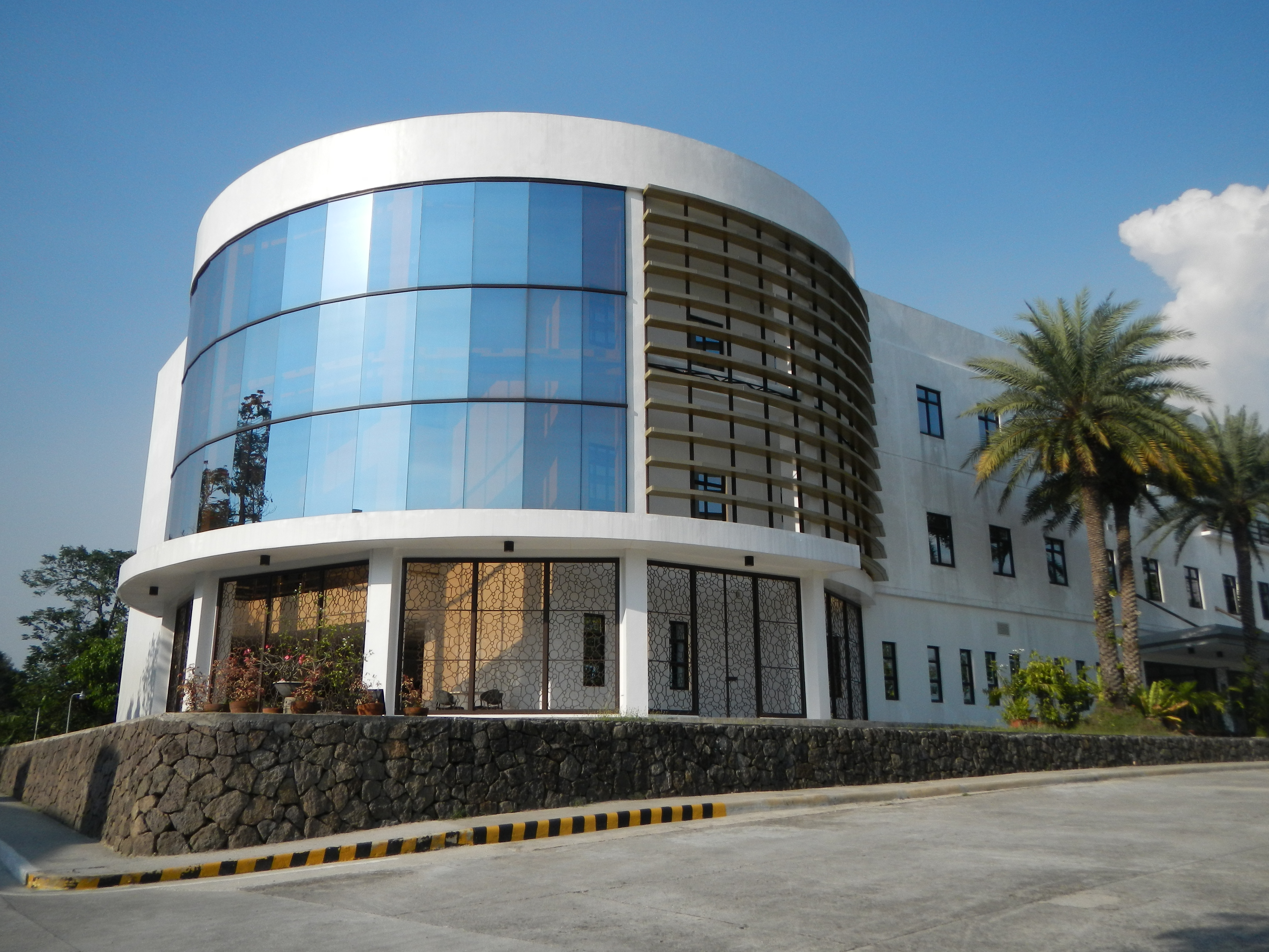 National Institute of Molecular Biology and Biotechnology[1]The National Institute of Molecular Biology and Biotechnology, also known as BIOTECH or NIMBB, is a research institute of the University of the Philippines. It is headquartered at UP Los Baños (BIOTECH-UPLB) with branches in UP Diliman (NIMBB-Diliman/BIOTECH-Diliman), UP Manila (National Institutes of Health-IMBB/BIOTECH-UP Manila) and UP Visayas (NIMBB-UP Visayas/BIOTECH-UP Visayas). BIOTECH laboratories are accredited and recognized by Environmental Management Bureau, Department of Environment and Natural Resources, Bureau of Food and Drugs, Department of Health, and Bureau of Animal Industry.[2] [3] is geographically located at latitude(14.6527 degrees) 14° 39' 9" North of the Equator and longitude (121.0629 degrees) 121° 3' 46" East of the Prime Meridian on the Map of Manila.Itis near Village B; is near Roxas Avenue; is near Village A; is near T. M. Kalaw Road; is near Ylanan; is near Plaza Hernandez; is near White House; is near Pardo De Tavera.University of the Philippines Diliman[4], University of the Philippines College of Science.[5][6]